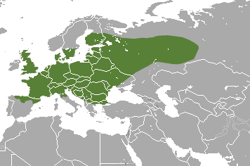 European Mole (Talpa europaea) range